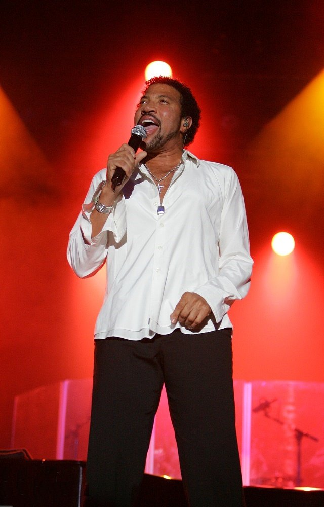 Lionel Richie in concert at the Chumash Casino Resort in Santa Ynez, California